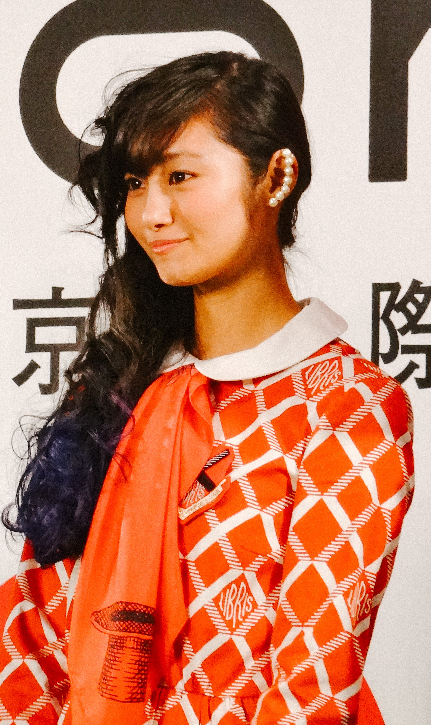 Shiori Kutsuna